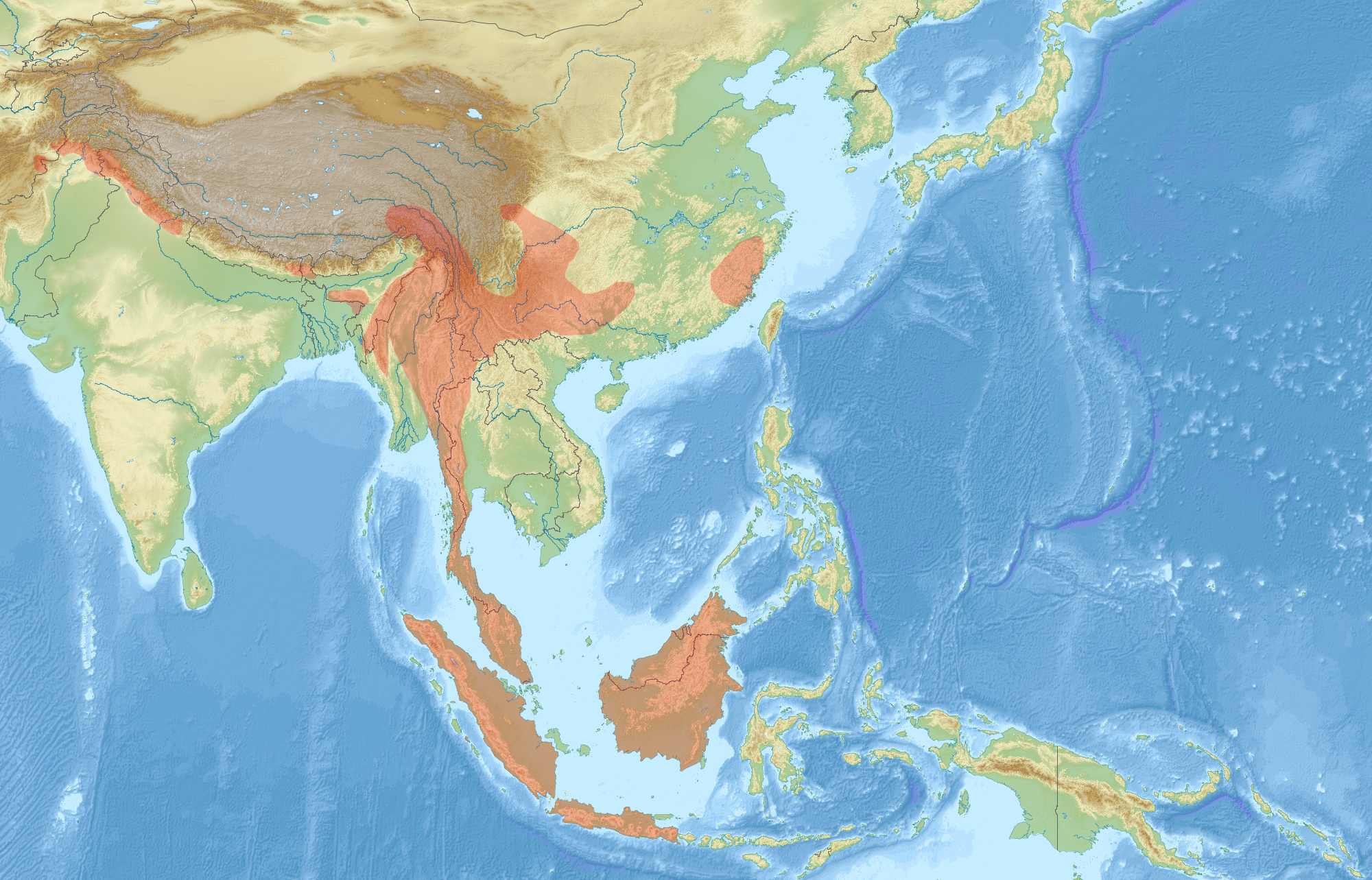 Distribution of Petaurista petaurista Projection: Equirectangular projection, strechted by 112.0%. Geographic limits of the map: N: 44.0° N S: -11.0° N W: 67.0° E E: 163.0° E GMT projection: -JX33.86666666666667cd/21.73111111111111cd GMT region: -R67.0/-11.0/163.0/44.0r GMT region for grdcut: -R67.0/-11.0/163.0/44.0r Relief: SRTM30plus. Made with Natural Earth. Free vector and raster map data @ .